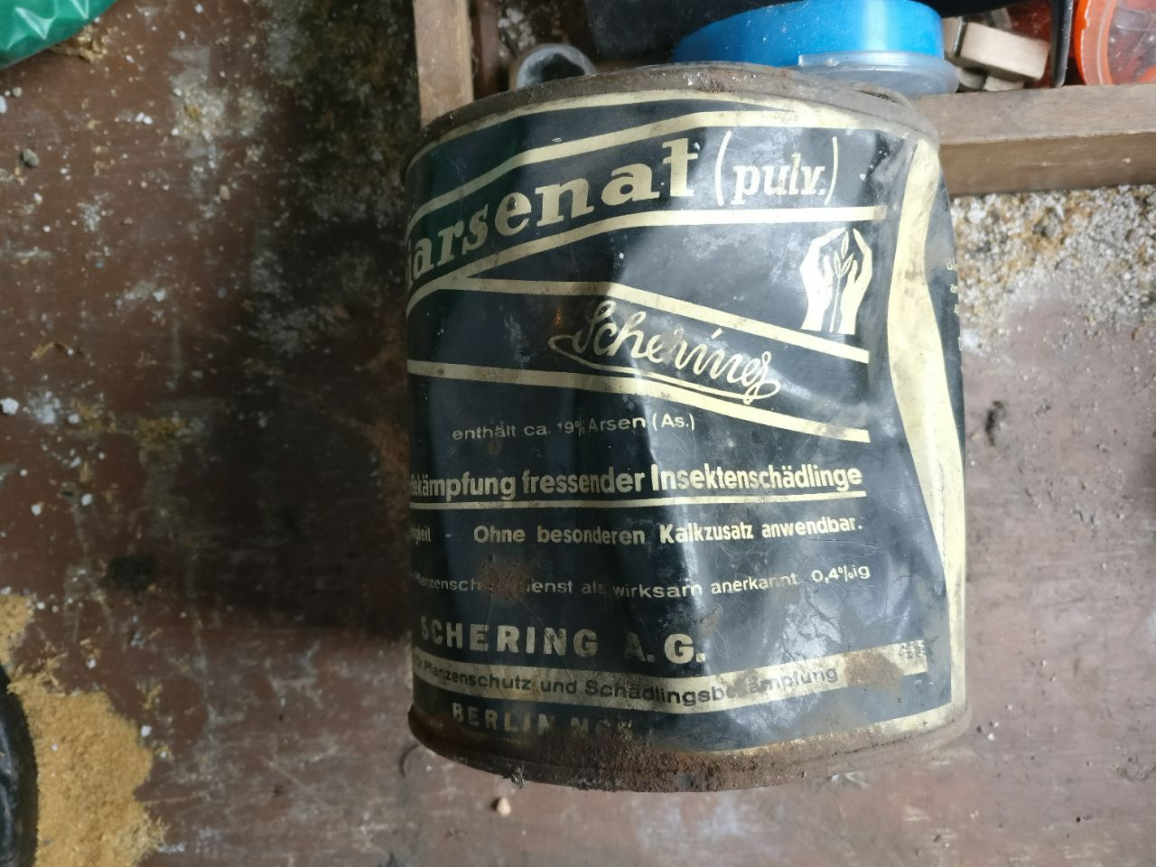 An old insecticide can made by Schering AG which contains a lead arsenate based powder.